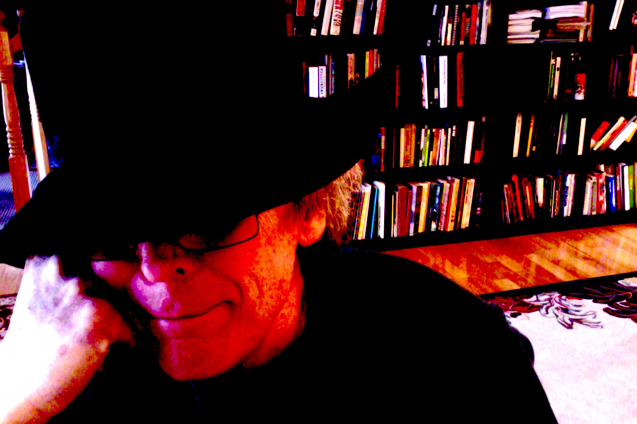 Self Portrait of CrackerJack Kid a.k.a. Chuck Welch, February 4, 2016